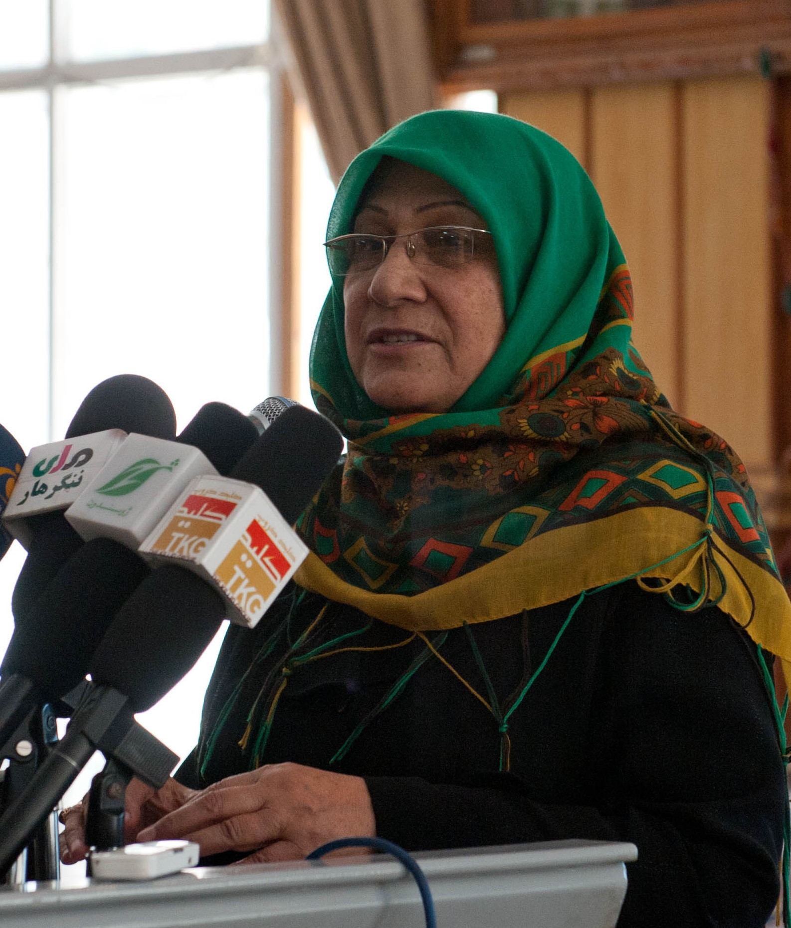 Sediqa Balkhi, a member of the Afghan High Peace Council, speaks during a women’s peace conference at the governor’s palace in Jalalabad, Nangarhar province, Afghanistan, Sept. 22, 2013. The conference brought provincial and regional government officials together, as well as prominent members of the local community, to discuss women’s roles in promoting peace and unity within Afghanistan. (U.S. Army National Guard photo by Sgt. Margaret Taylor, 129th Mobile Public Affairs Detachment/RELEASED)